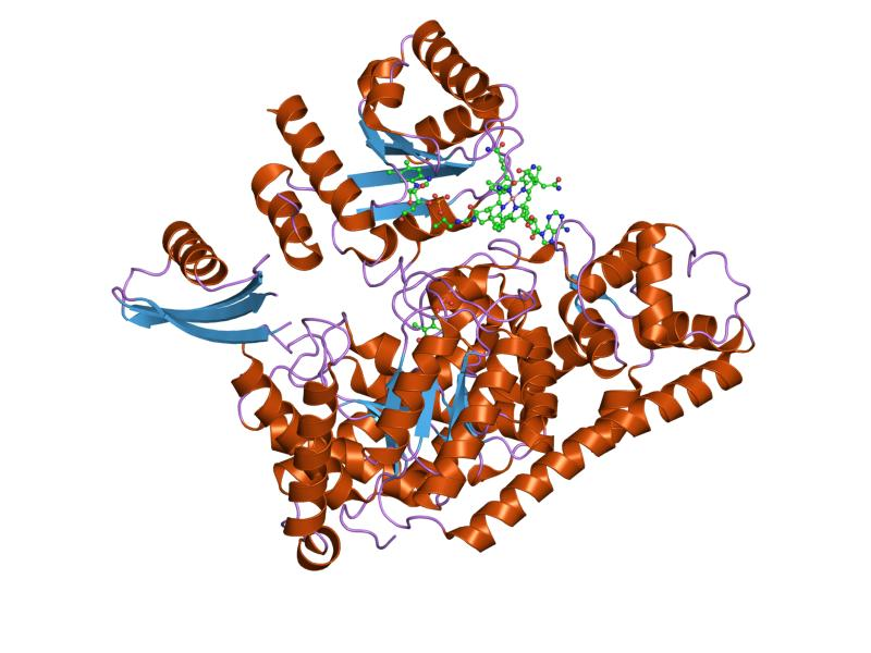 Cartoon representation of the molecular structure of protein registered with 1xrs code.